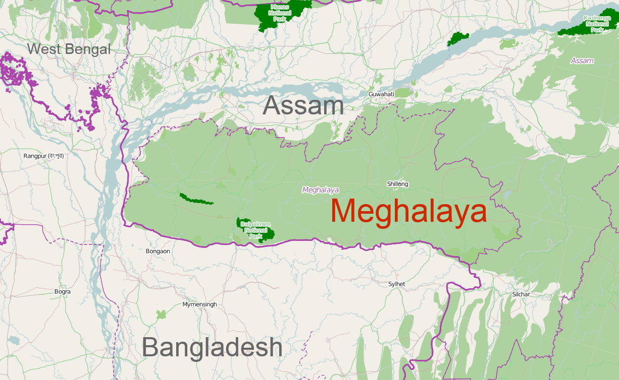 Meghalaya political boundaries map with some cities and national parks This map may be incomplete, and may contain errors. Don't rely solely on it for navigation.